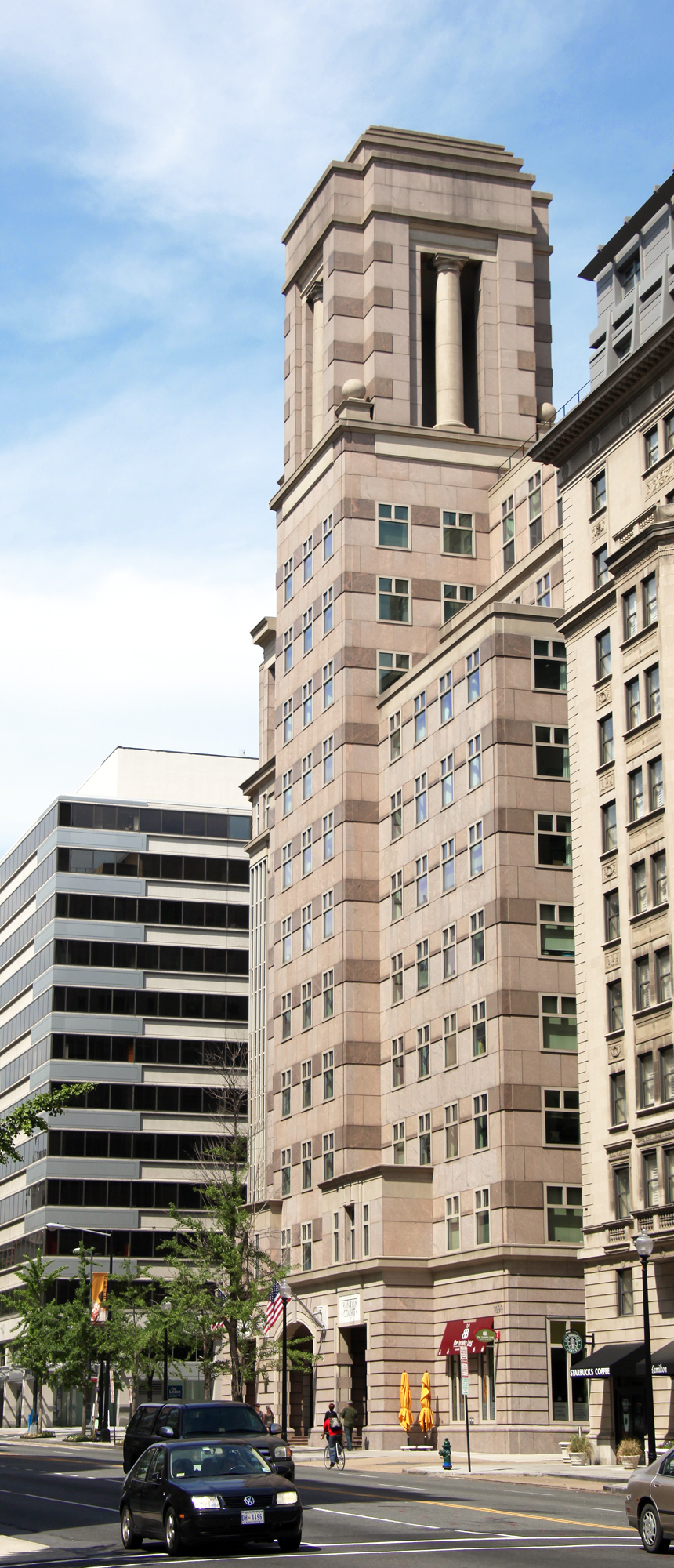 Looking north-northeast at 1099 14th Street NW (also known as Franklin Court), a high-rise office building in Washington, D.C., in the United States. Franklin Court was completed in 1992. It is a Postmodern structure with a Tuscan-inspired tower that was the tallest tower in the city when built.